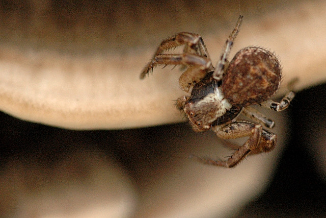 female Xysticus erraticus from Commanster, Belgian High Ardennes .